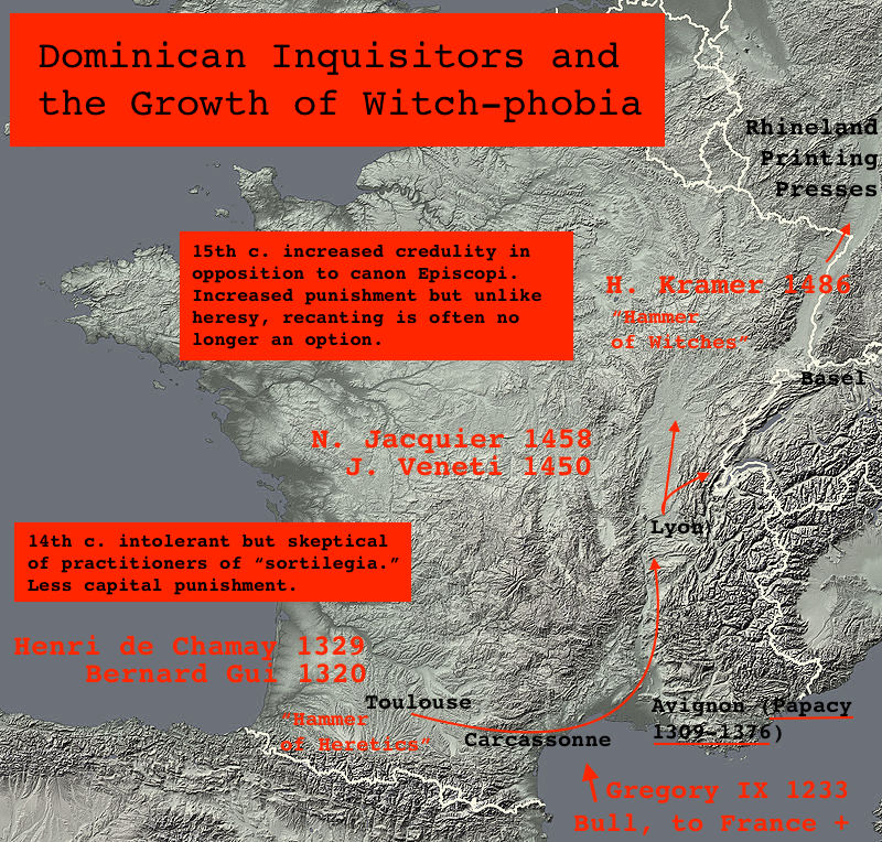 I annotated this with info in the text of the article, and using as a base a PD map in wikimedia commons called france_radar_2